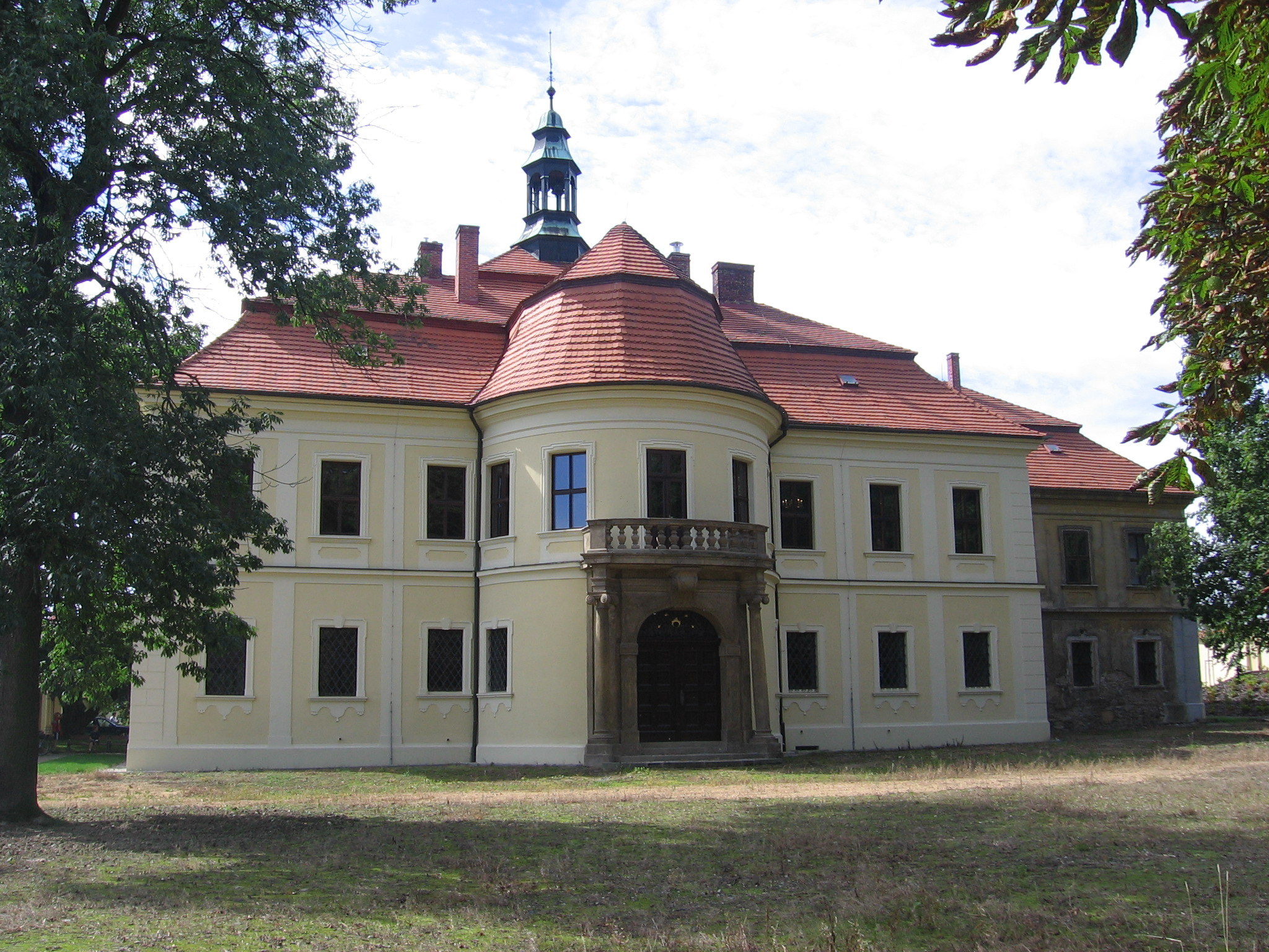 Mirošov, castle